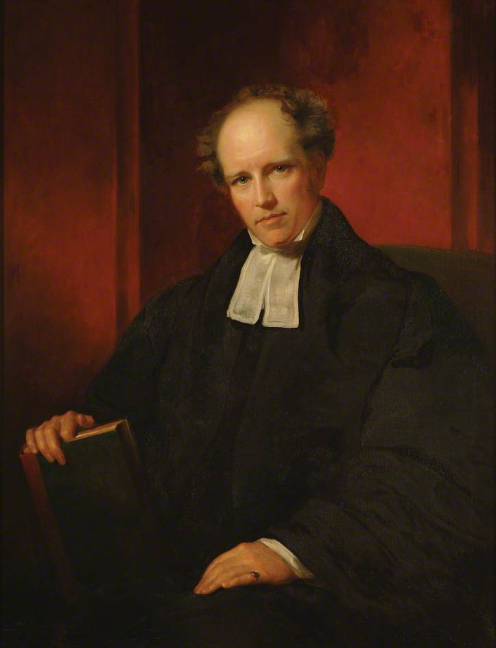 Oil on canvas painting of George Ferris Whidborne Mortimer by Eden Upton Eddis